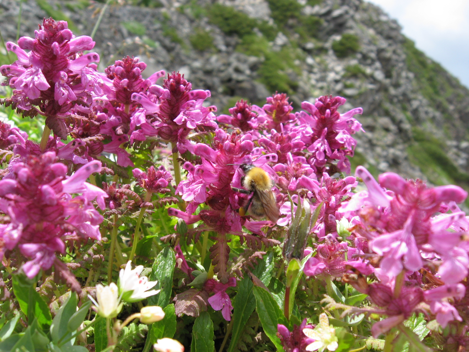 Pedicularis verticillata